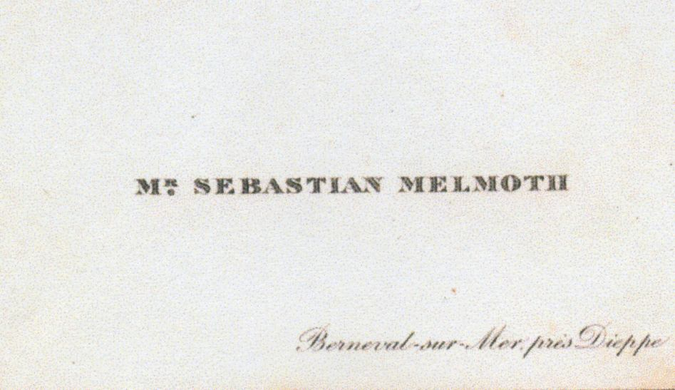 Oscar Wilde's visiting card from the time after his release from jail when he was traveling under the name Sebastian Melmoth